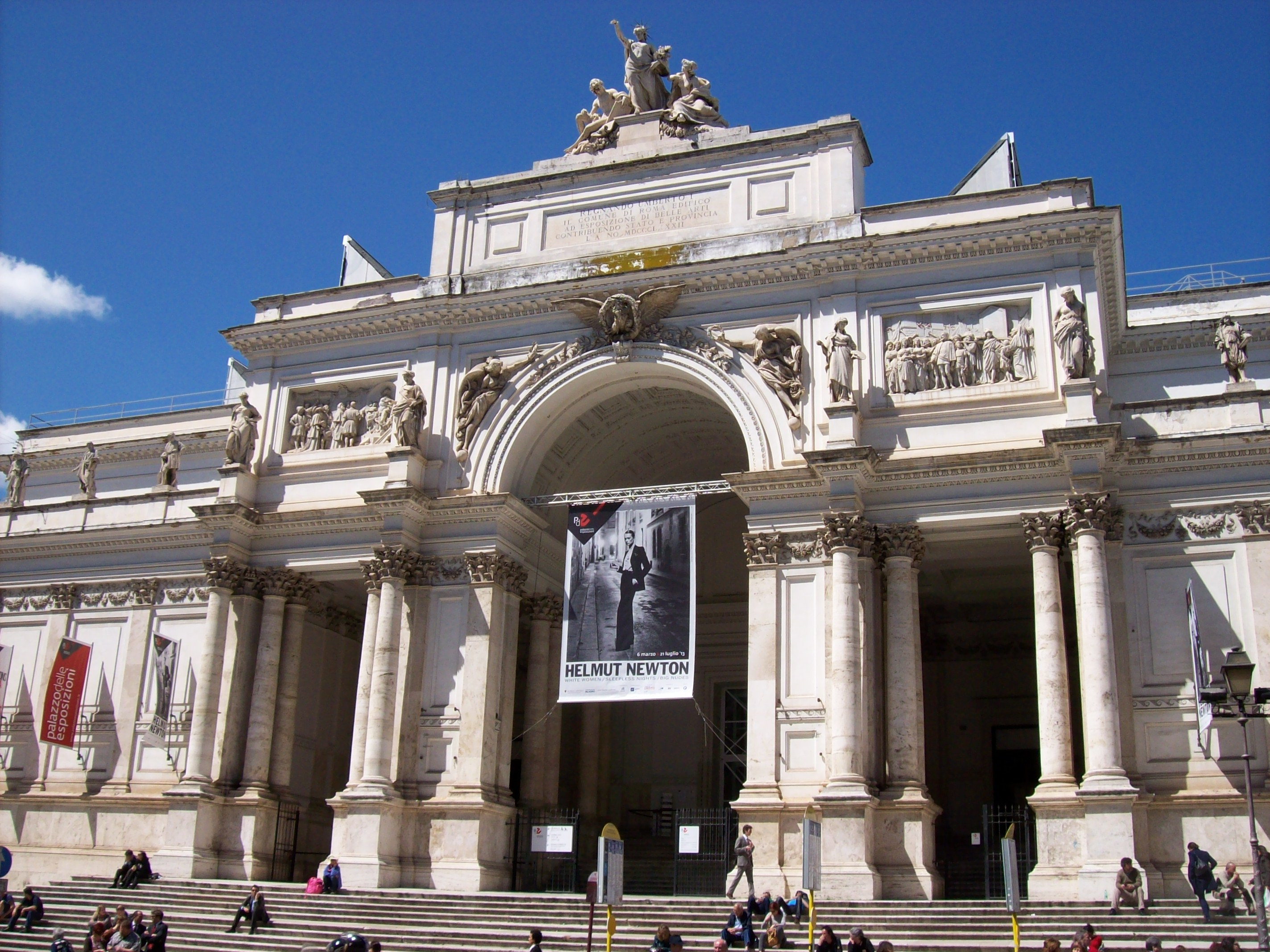 Front view of the Palazzo delle Esposizioni in Rome